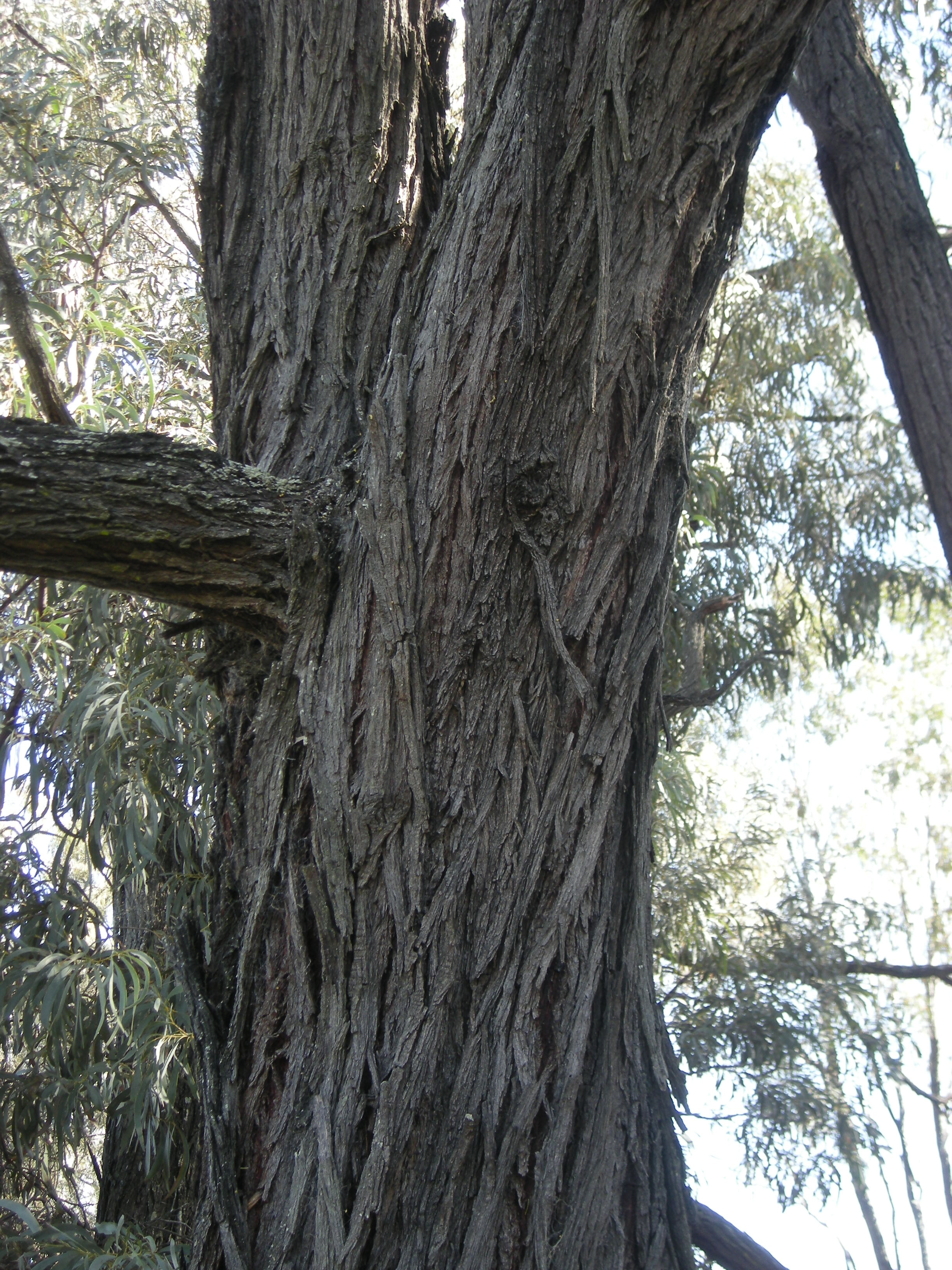 Bark of briaglow tree, coastal central Queensland